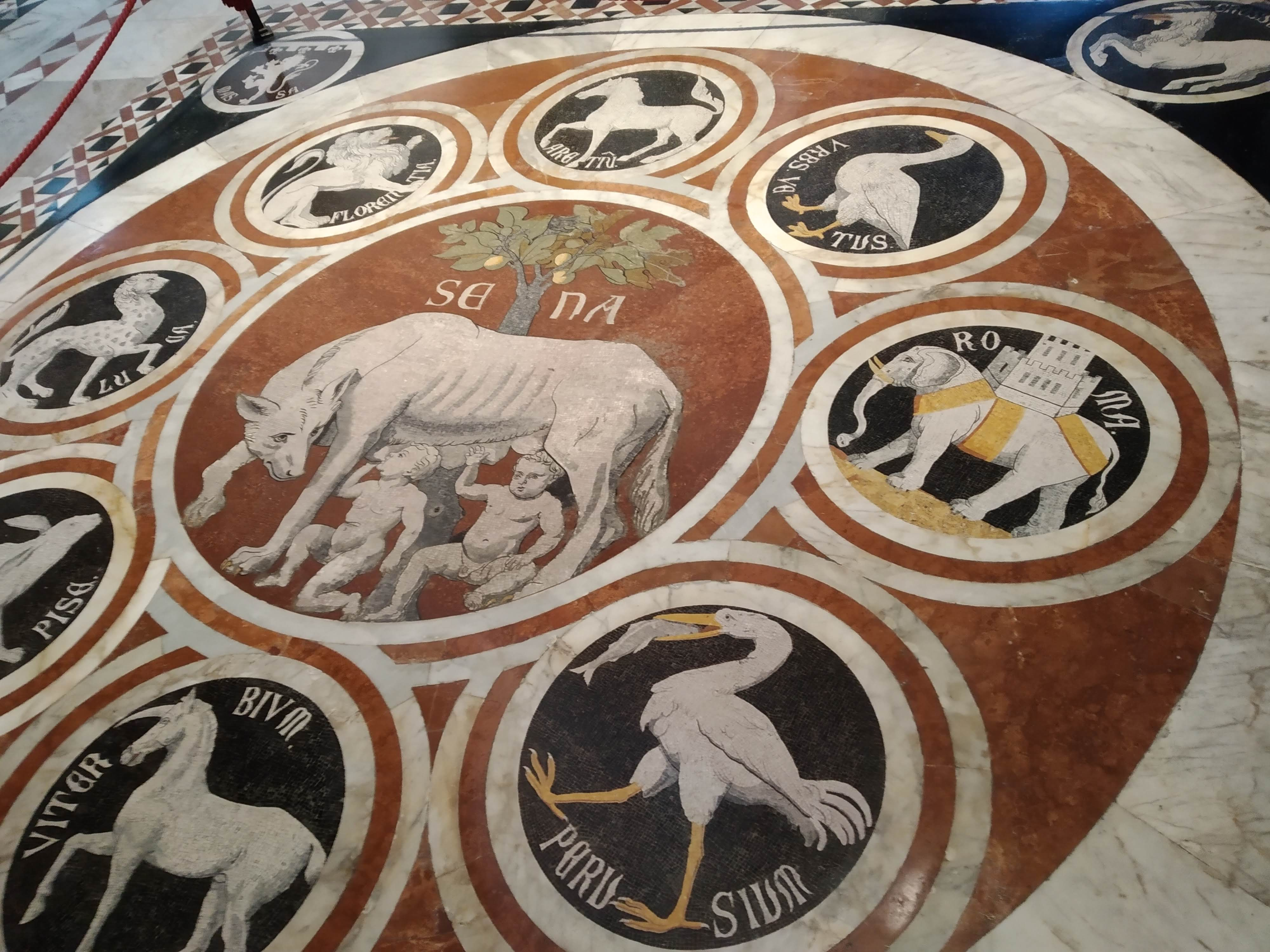 Siena Cathedral floor. Cities surrounding Siena.